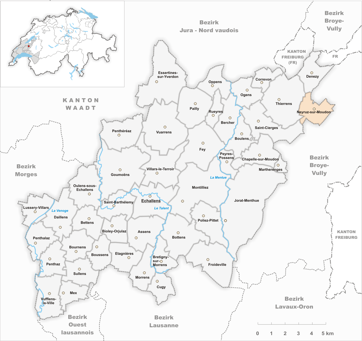 Municipality Neyruz-sur-Moudon